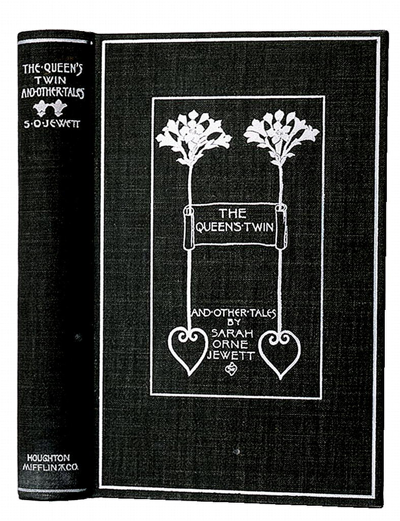 Book cover of "The Queen's Twin and Other Tales," written by Sarah Orne Jewett, with cover designed by Boston artist Sarah Wyman Whitman. Published by Houghton Mifflin & Co., Boston. Whitman was an adviser to Boston publisher George Mifflin and produced covers for books by Margaret Deland, Celia Thaxter, Nathaniel Hawthorne, Jewett and others. Rare Book and Special Collections Division, The Library of Congress, Washington, D. C.